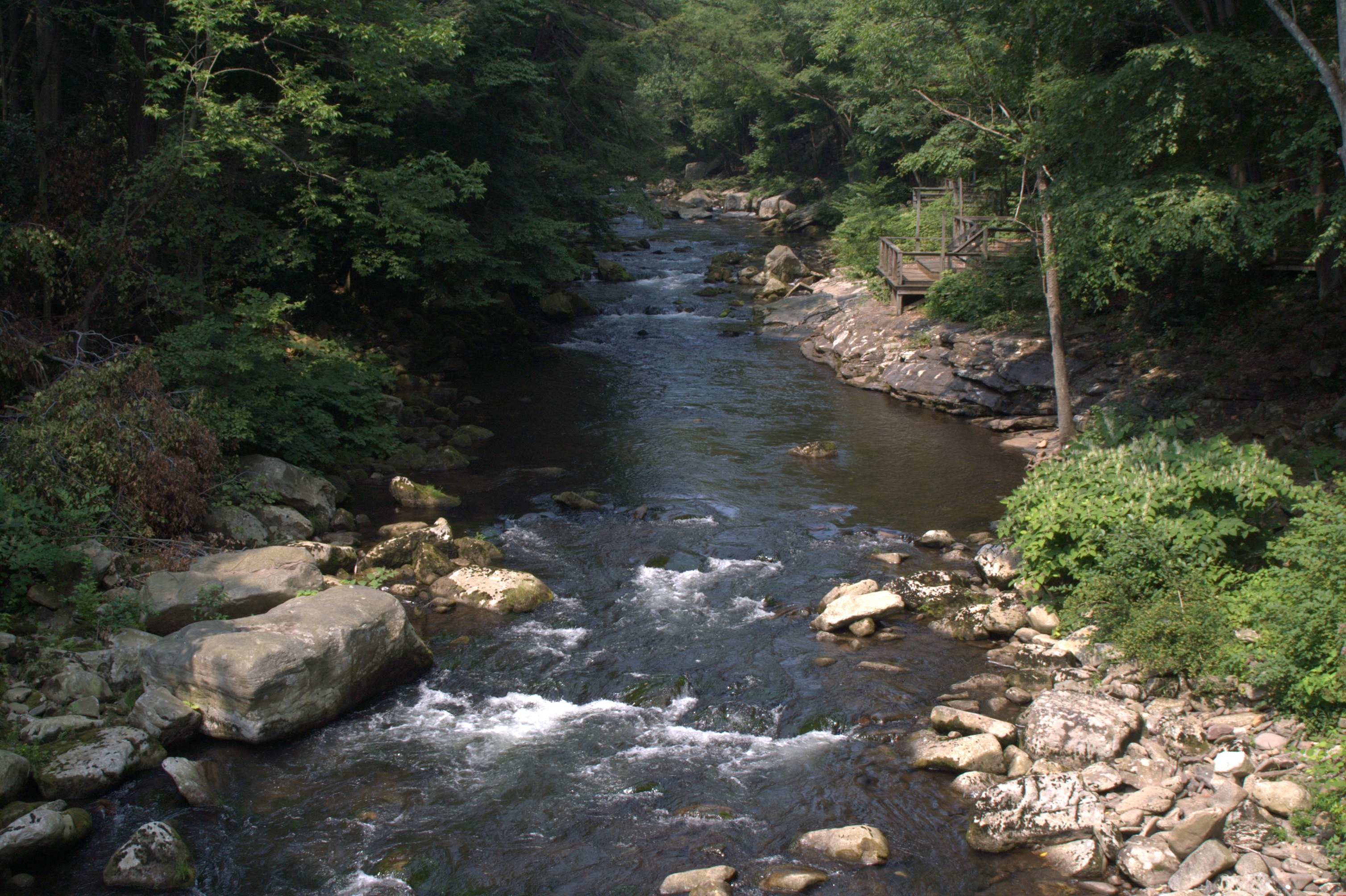 Savage River in Savage River State Forest, Maryland as seen from the Allegany Bridge. Picture taken approximately at: N 39° 30.075 W 079° 06.539.